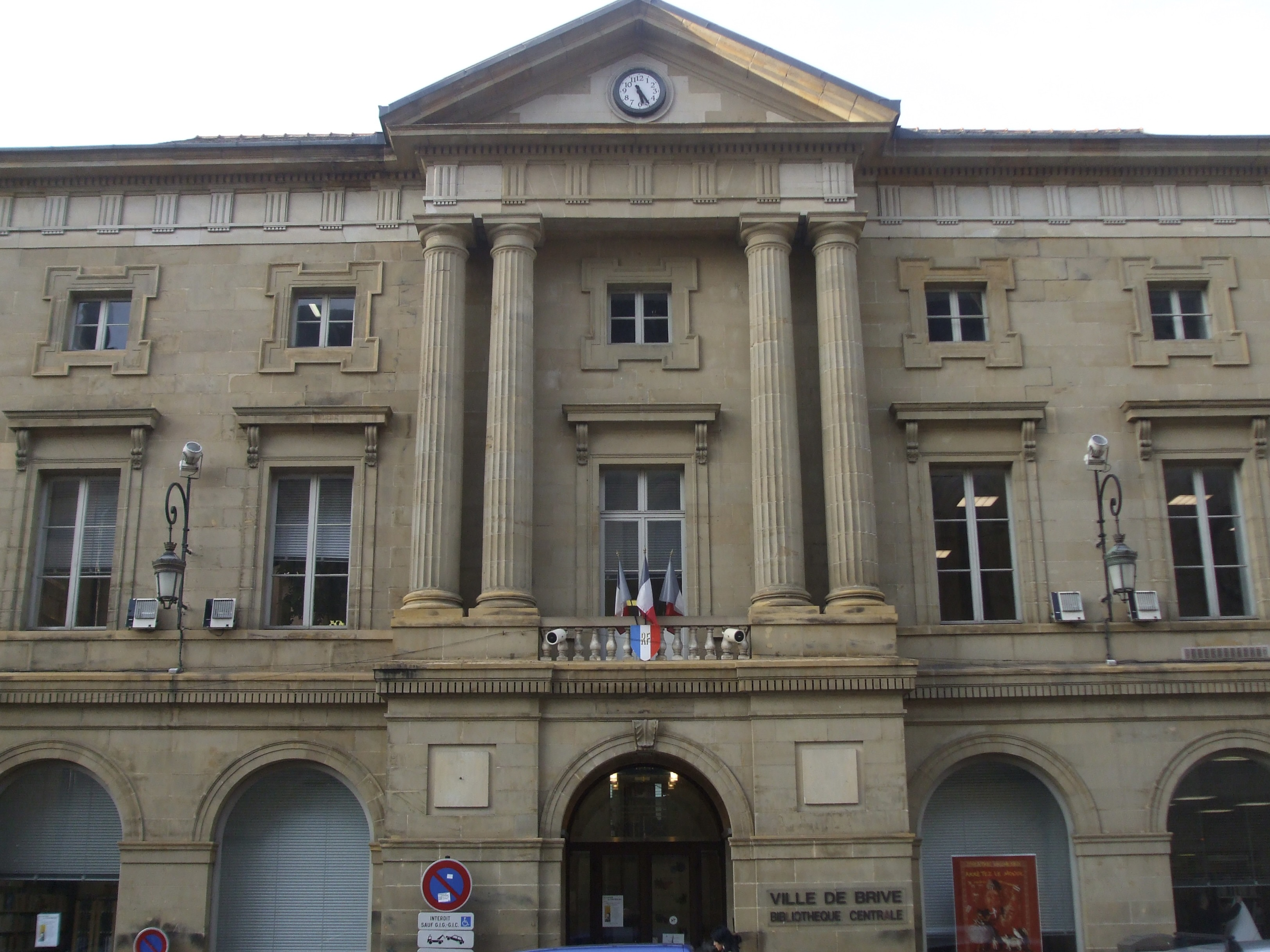 Central public librairy, Brive la Gaillarde, France